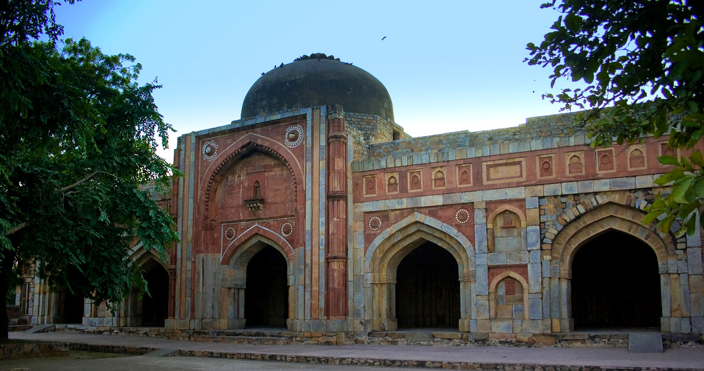 Jamali Kamali Masjid, (b. 1528-29), Mehrauli Archaeological Park, Mehrauli.